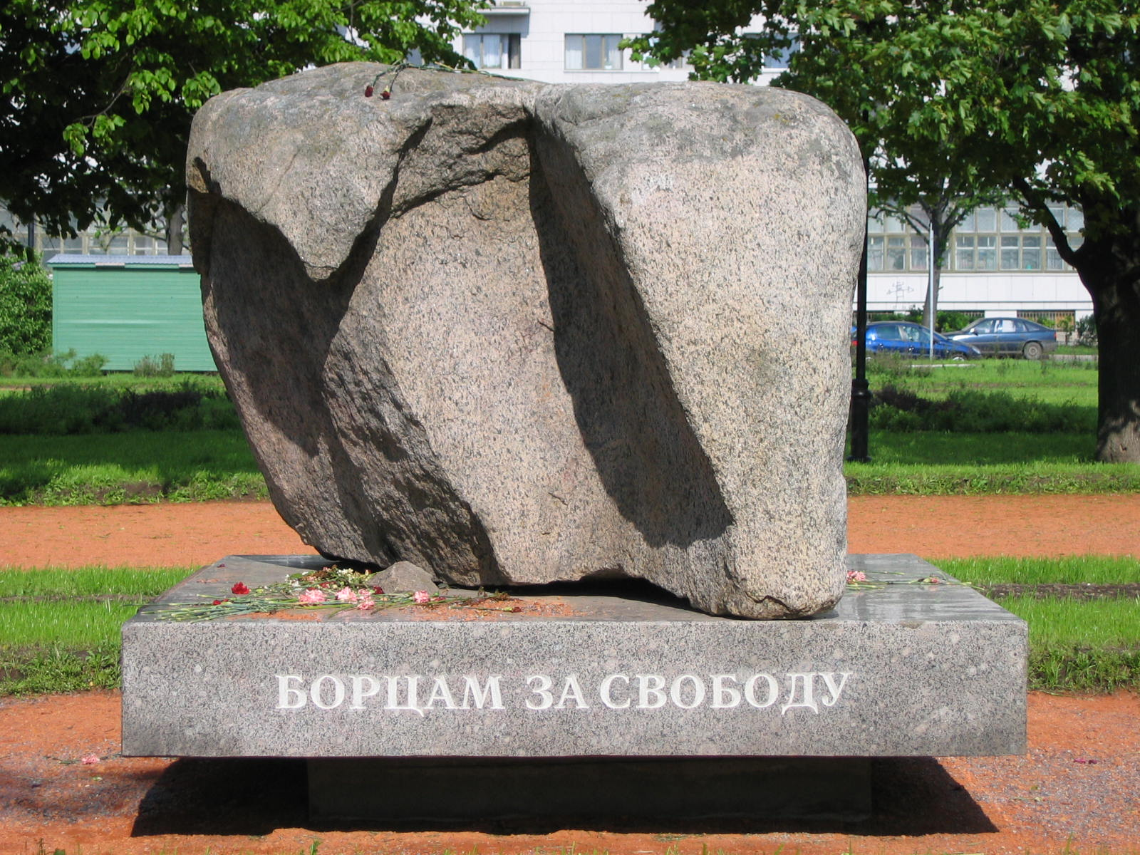 This is made of a boulder from the Solovetskiy penal colony--the first prison in the Gulag system. People gather here every year on the Day of Victims of the Repression (October 30). The caption means "For the fighters for freedom."